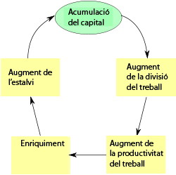 Division of labor and growth in Adam Smith's Wealth of nations